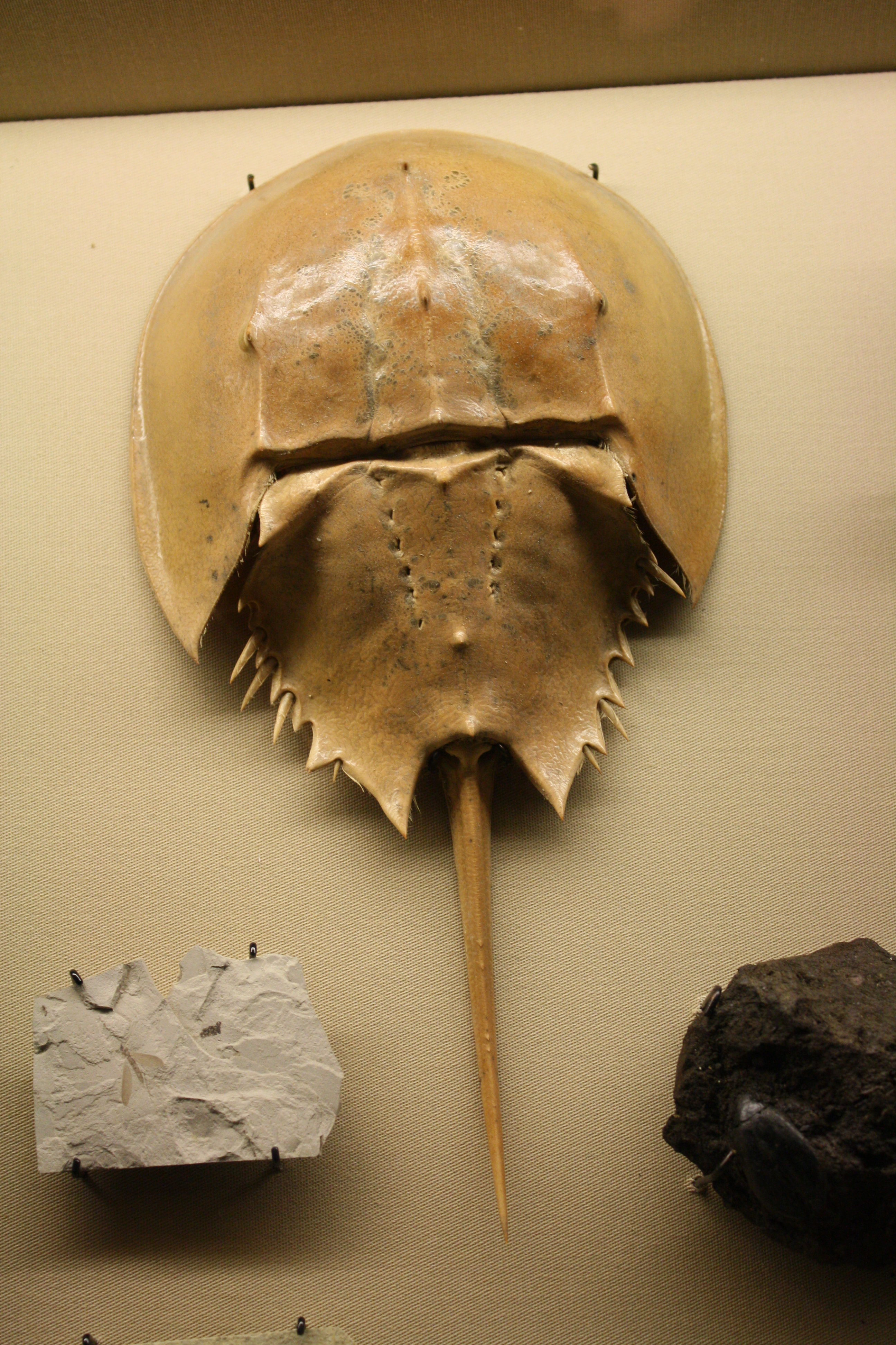 Limulus polyphemus (Horse Shoe Crab) Wikipedia Loves Art at the Houston Museum of Natural Science This photo of item # [1] at the Houston Museum of Natural Science was contributed under the team name "The_Wookies" as part of the Wikipedia Loves Art project in February 2009. Houston Museum of Natural Science The original photograph on Flickr was taken by andytang20—please add a comment to the original Flickr page whenever a use has been made on Wikipedia or another project. Project galleries on Flickr: this institution, this team